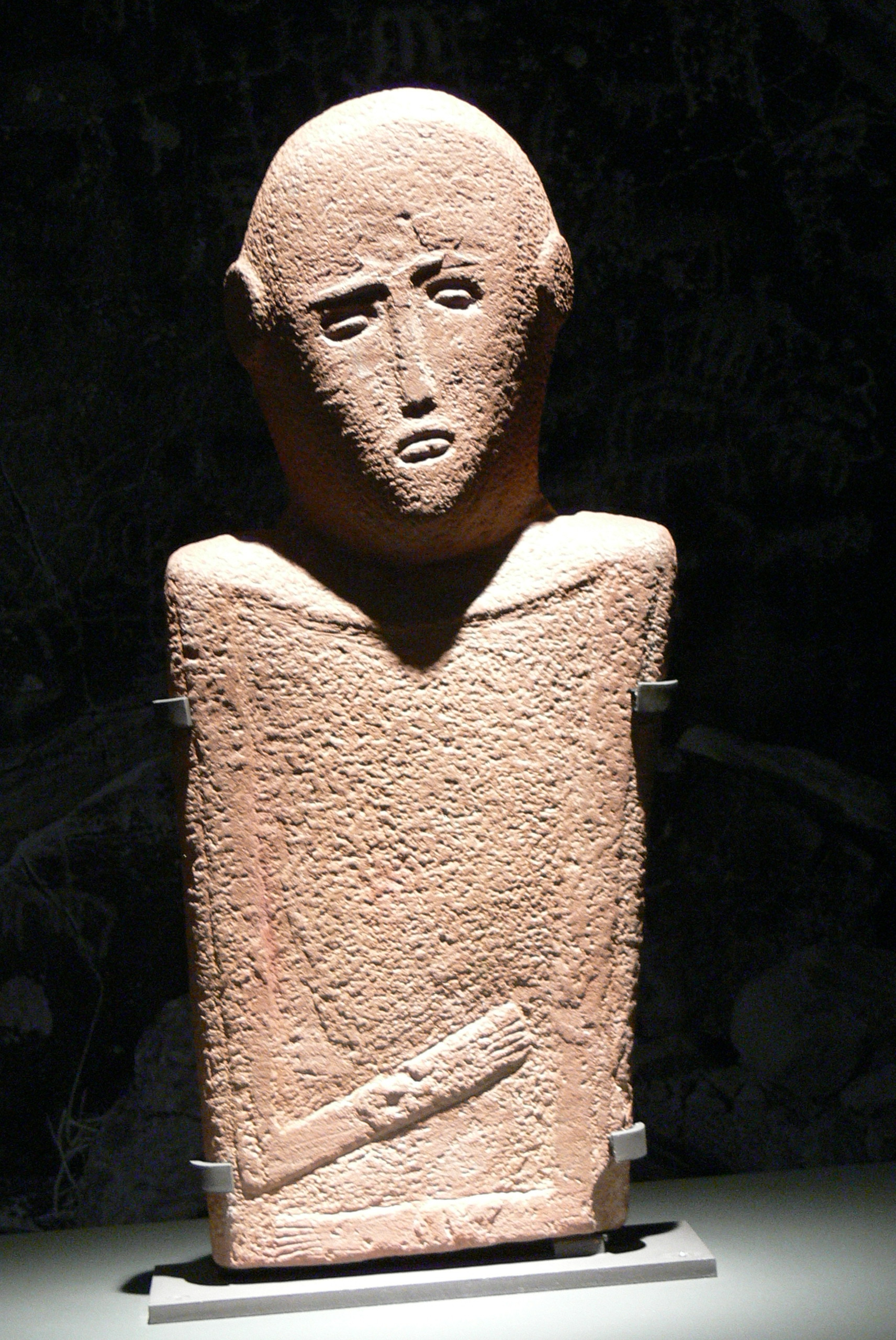 Pergamon Museum ( Berlin ). Exhibition "Roads of Arabia": Anthropomorphic stela ( 4th millenium BC ), sandstone, 57x27 cm, from El-Maakir-Qaryat al-Kaafa ( National Museum, Riyadh )